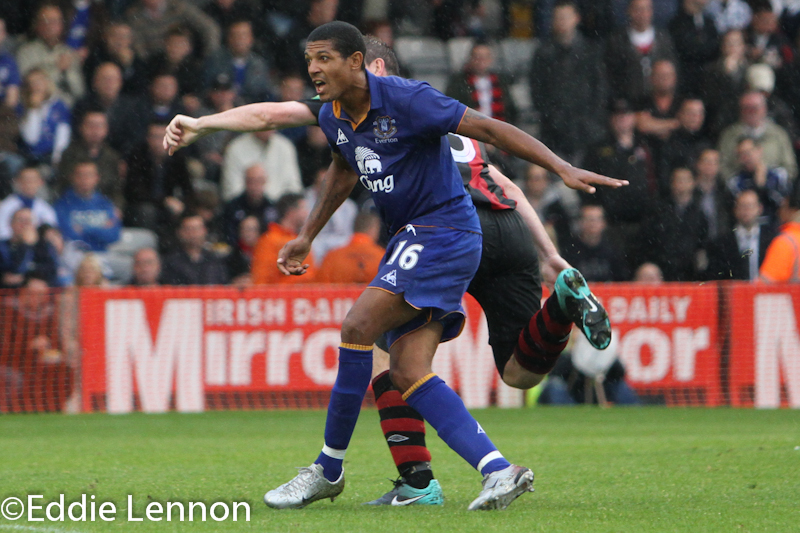 Jermaine Beckford of Everton FC.